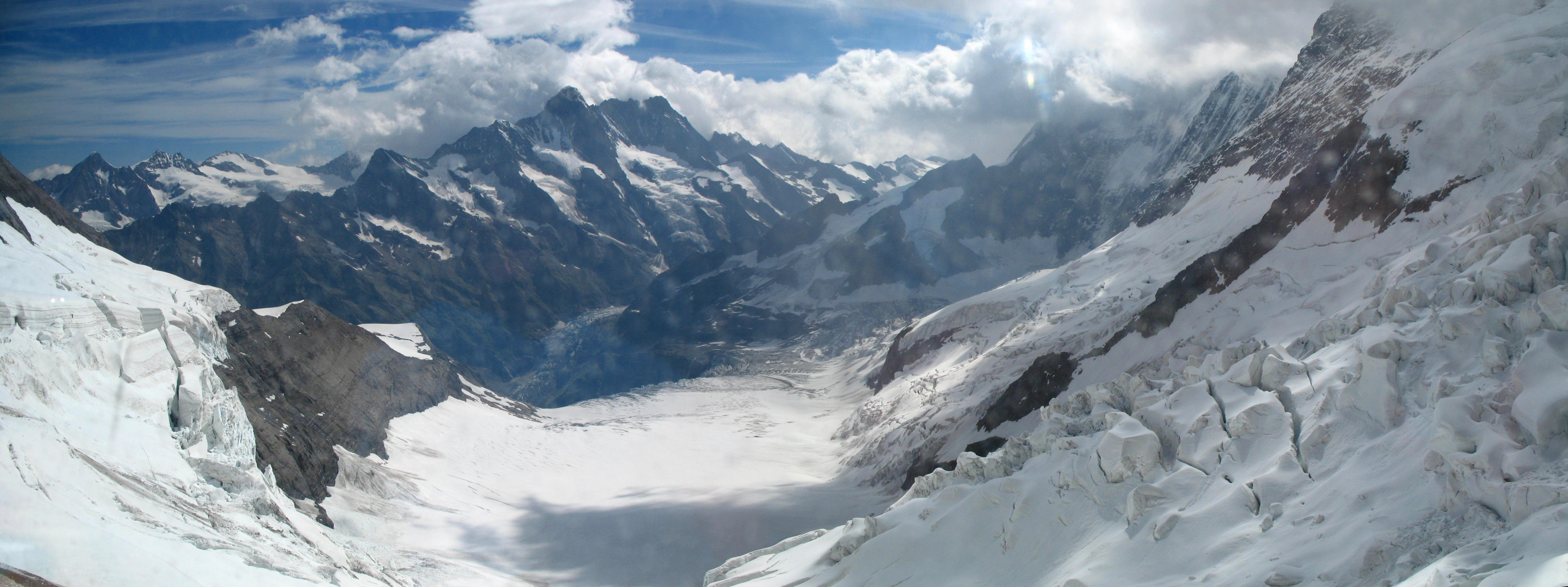 Gimmelwald viewed from the Jungfraubahn, Eismeer, Switzerland